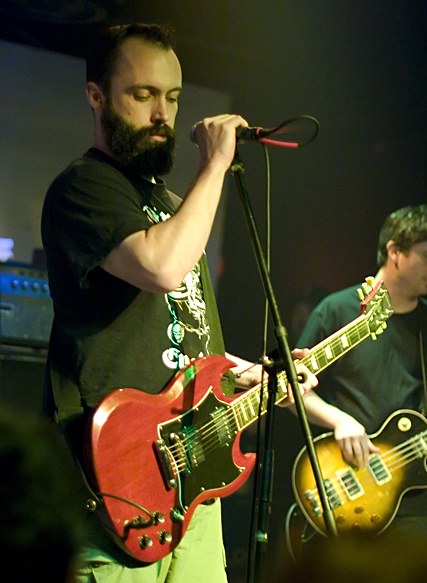 Neil Fallon, lead-singer of the American Hard Rock band, ClutchClutch